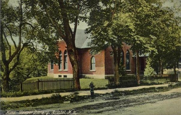 Minot-Sleeper Library, Bristol, New Hampshire. It was constructed in 1884, a gift to the town from Judge Josiah Minot of Concord, New Hampshire and Colonel Solomon Sleeper of Cambridge, Massachusetts. Both had grown up in Bristol.